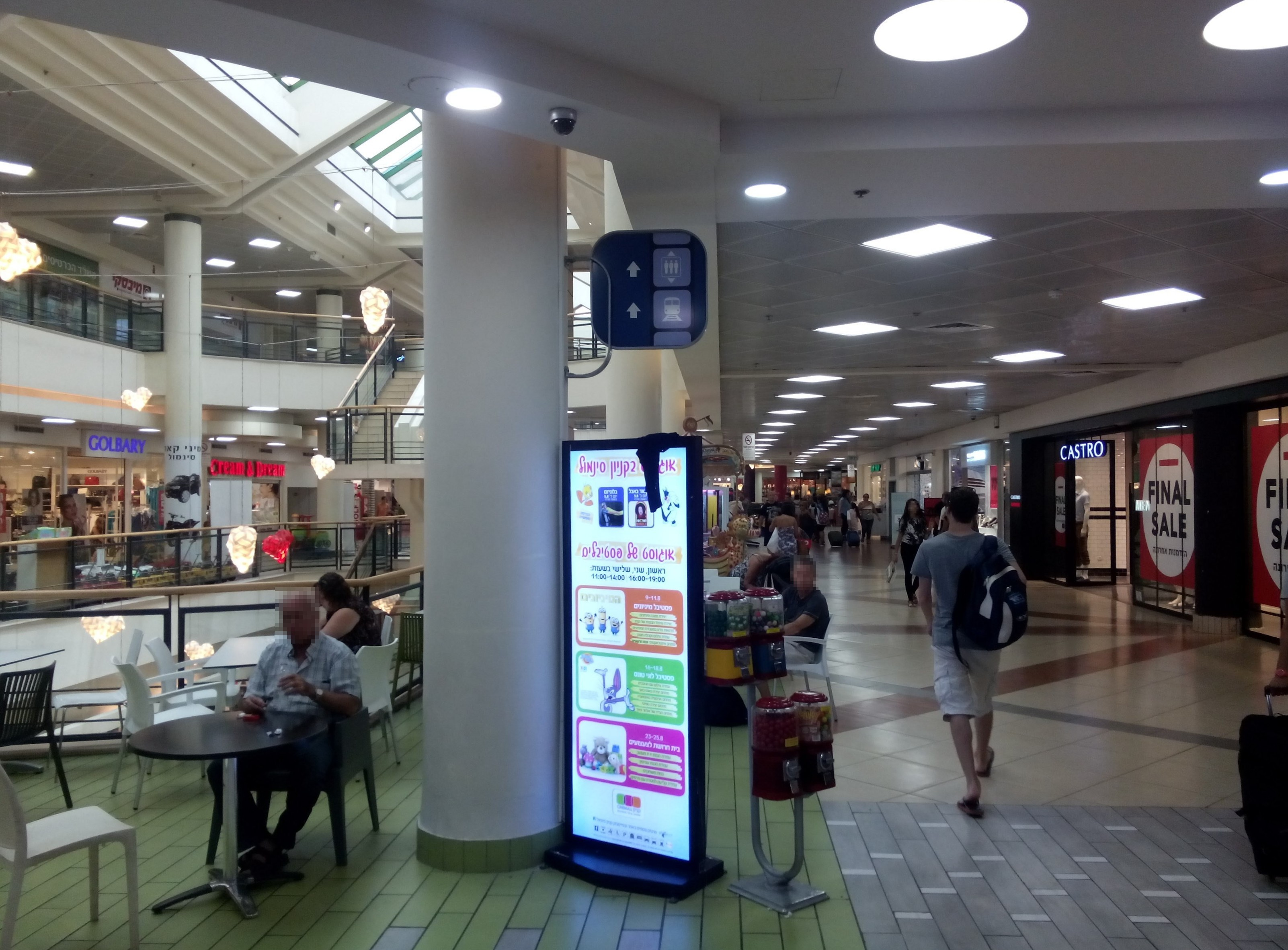 inside Cinemall (shopping mall) through which passengers access Lev HaMifratz train station